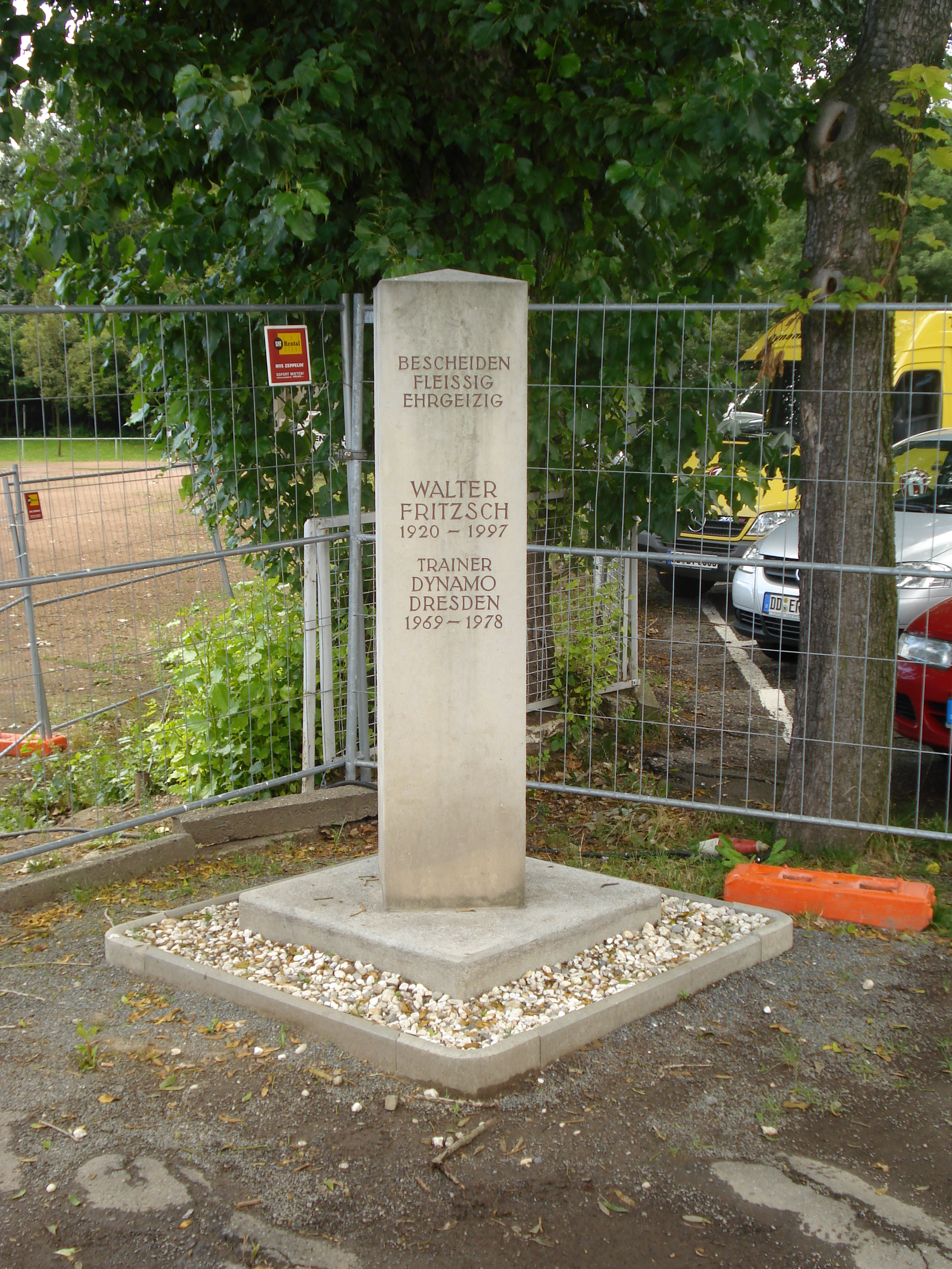 The Walter Fritzsch stone at the Rudolf Harbig Stadium.